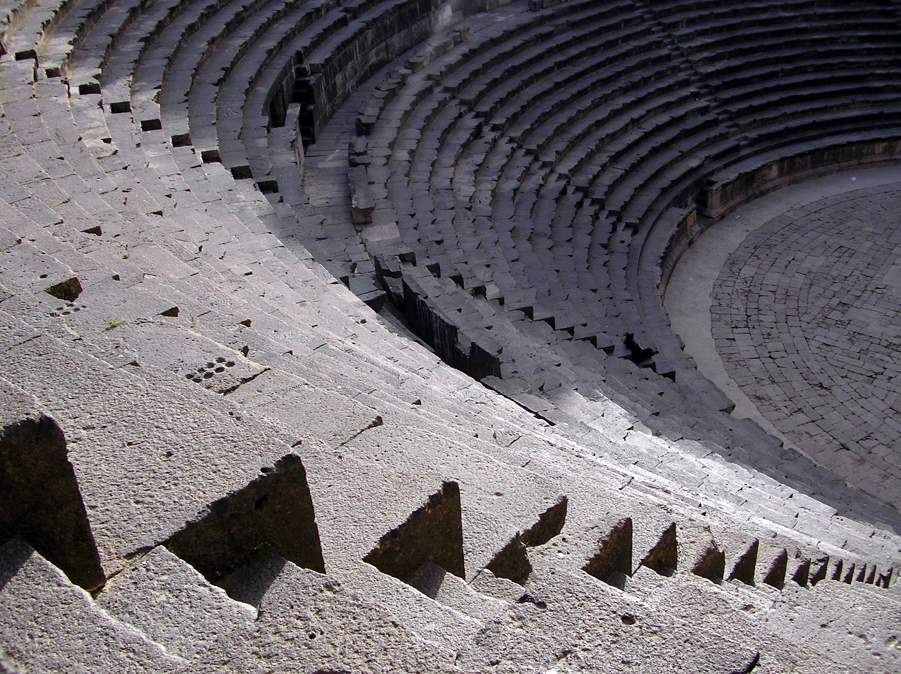 Trajans' Roman theater, Bosra, SW Syria